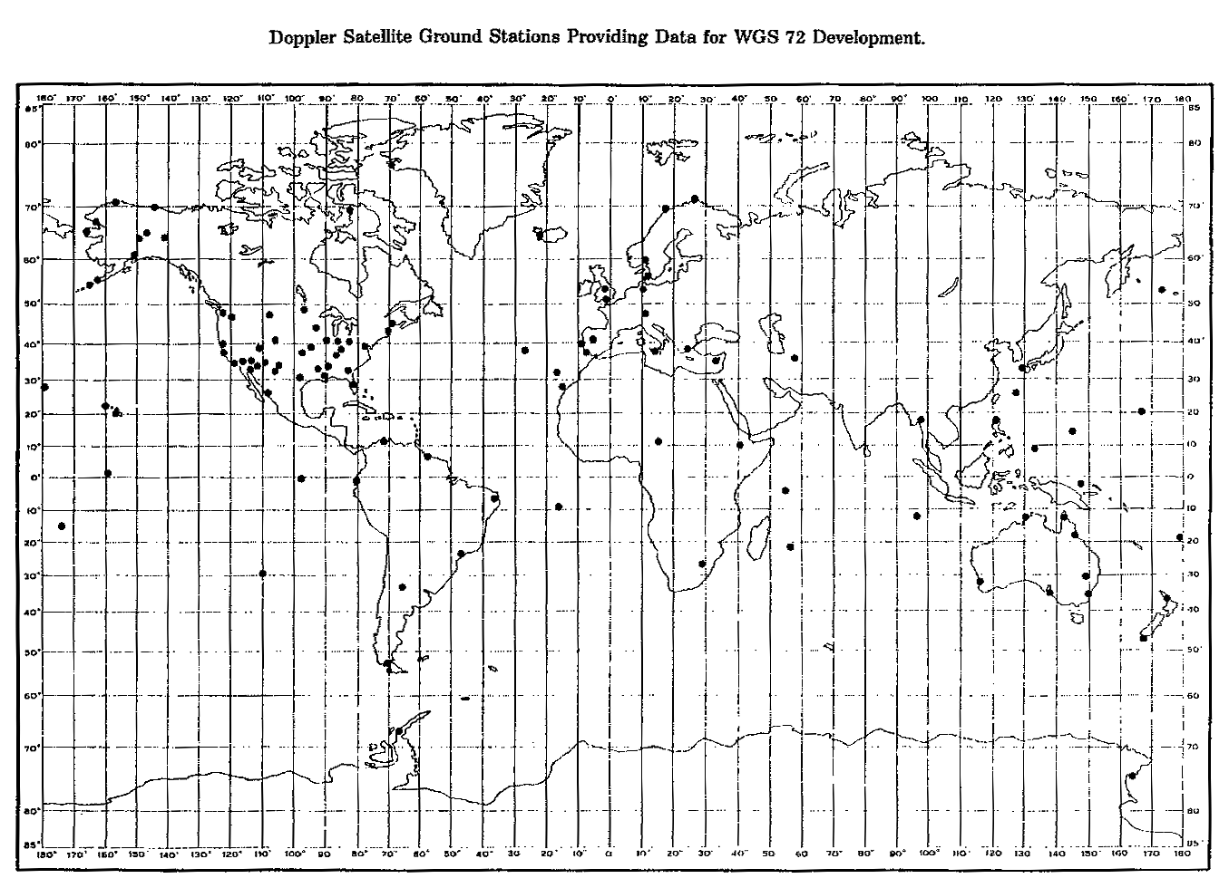 taken from the public domain booklet Geodesy for the Layman at